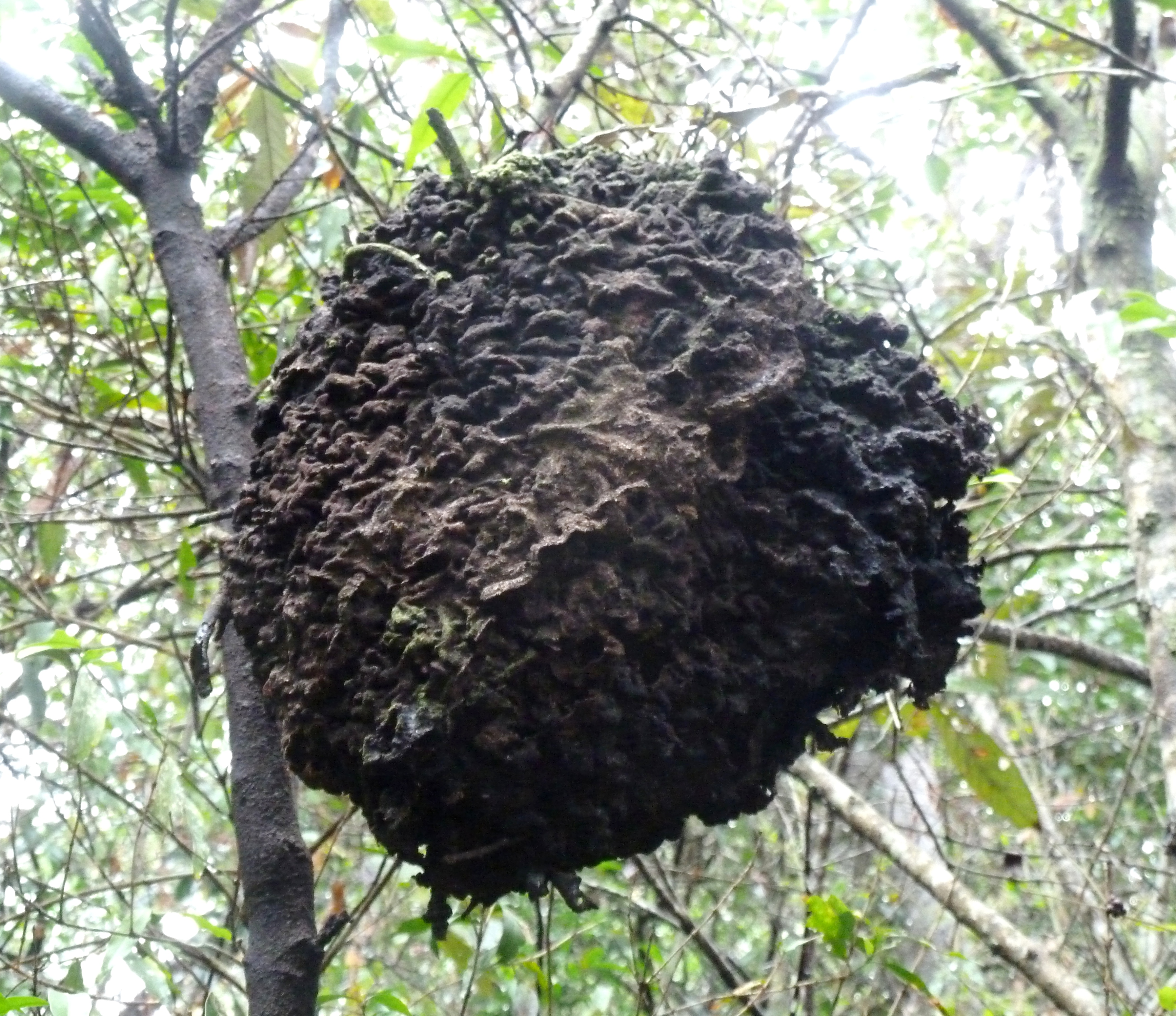 Arboreal carton nest of an Crematogaster castanea colony in Krantzkloof Nature Reserve